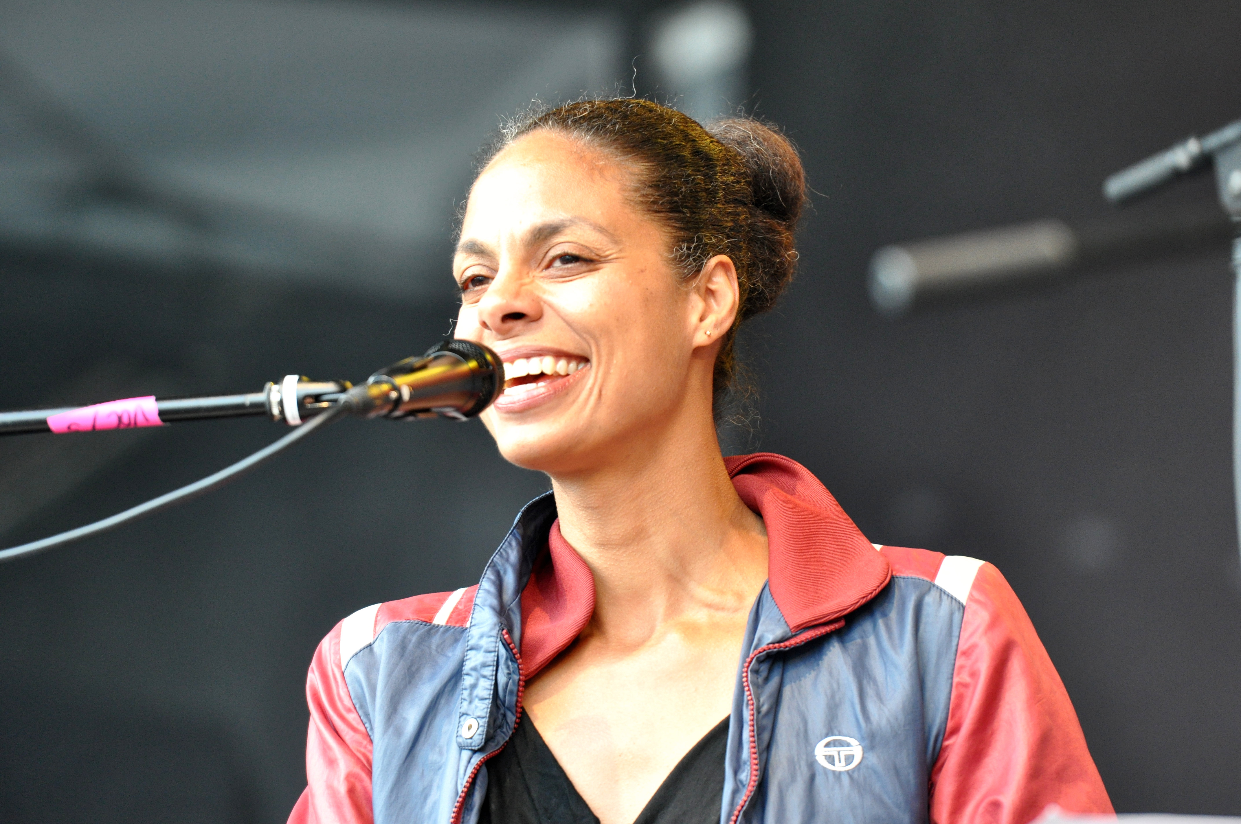 Stoppok, Astrid North, 40th music festival 'Bardentreffen' 2015 at Nuremberg, Germany Festivalsommer This photo was created with the support of donations to Wikimedia Deutschland in the context of the CPB project "Festival Summer".